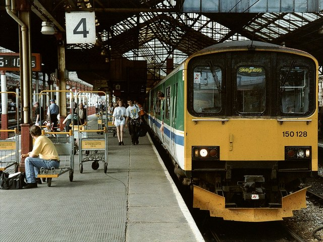 Railway Station, Crewe Class 150128 at platform 4. It's August and the unit is snowplough fitted, but it might have to cope with some wind blown sand at Skeggie. Judging by the tyre mark, someone has been fooling with the trolley. Crewe is the Mecca for railway enthusiasts, but I lost interest after 1999/2000.